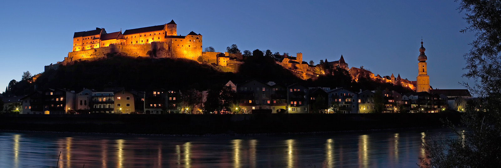 Burghausen: Castle at blue hour